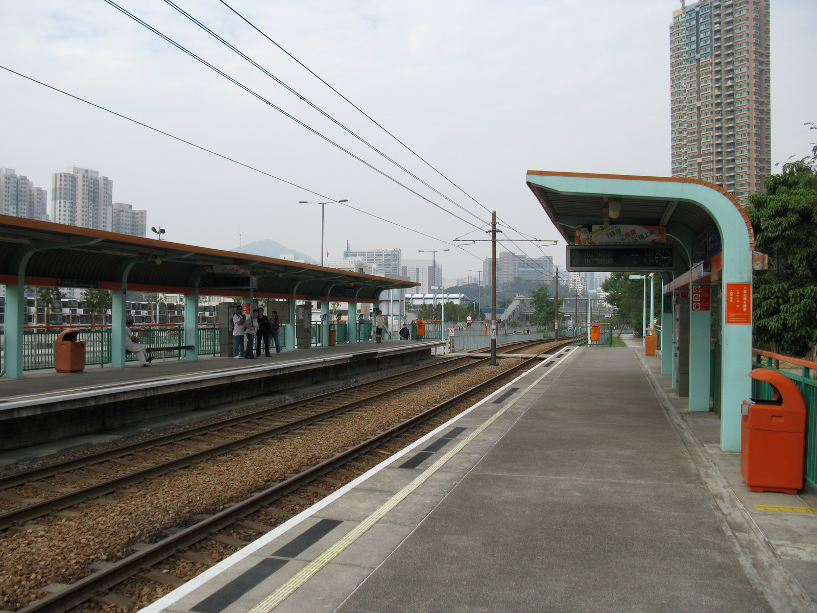 輕鐵 屯門泳池站 Tuen Mun Swimming Pool Stop, Light Rail